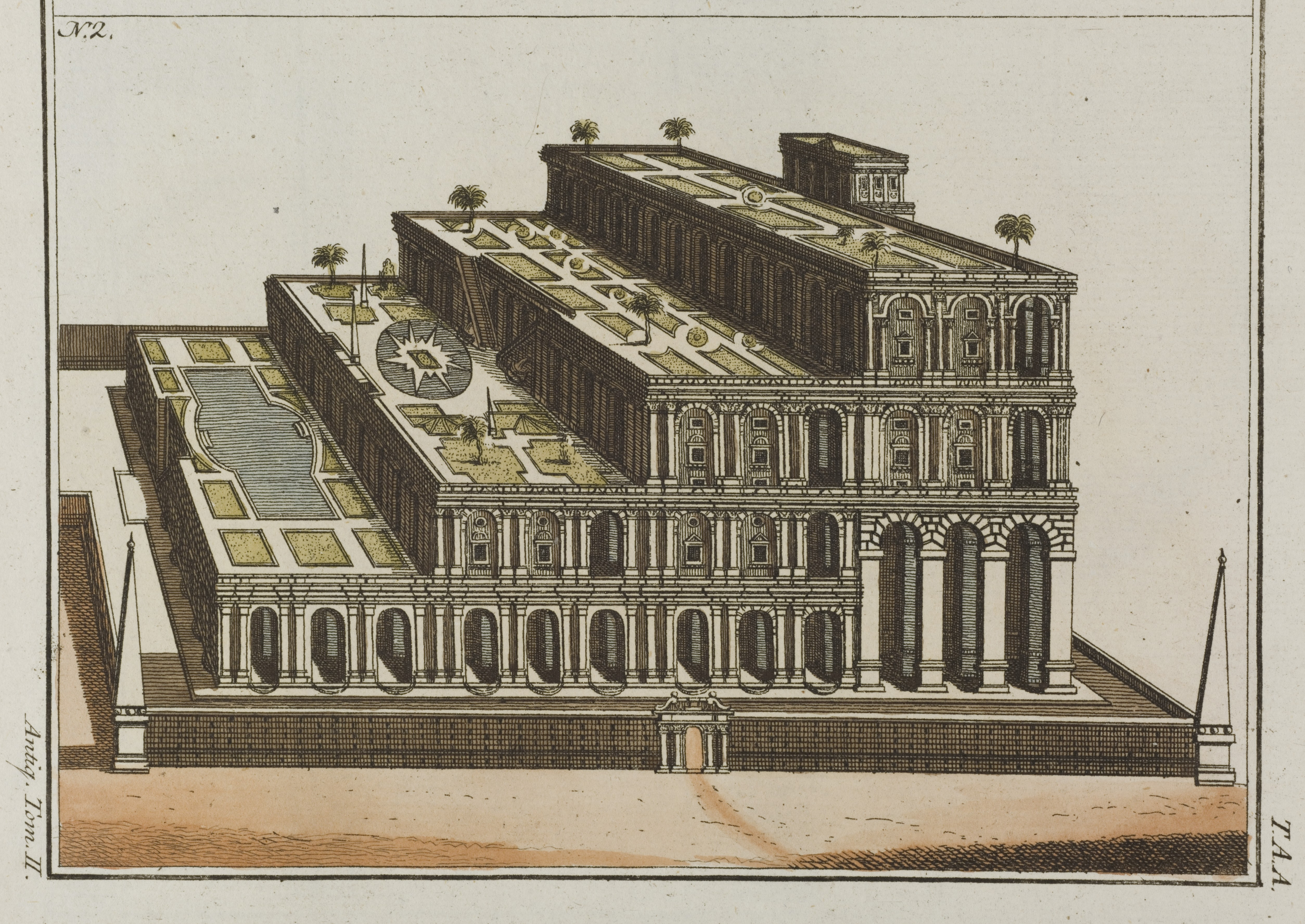 The Hanging Gardens of Babylon Iconographic Collections Keywords: Robert von. Spalart